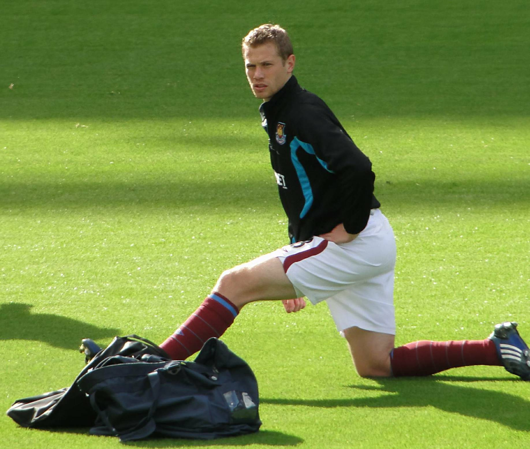 West Ham player Jonathan Spector warming-up before West Ham's home game v Fulham